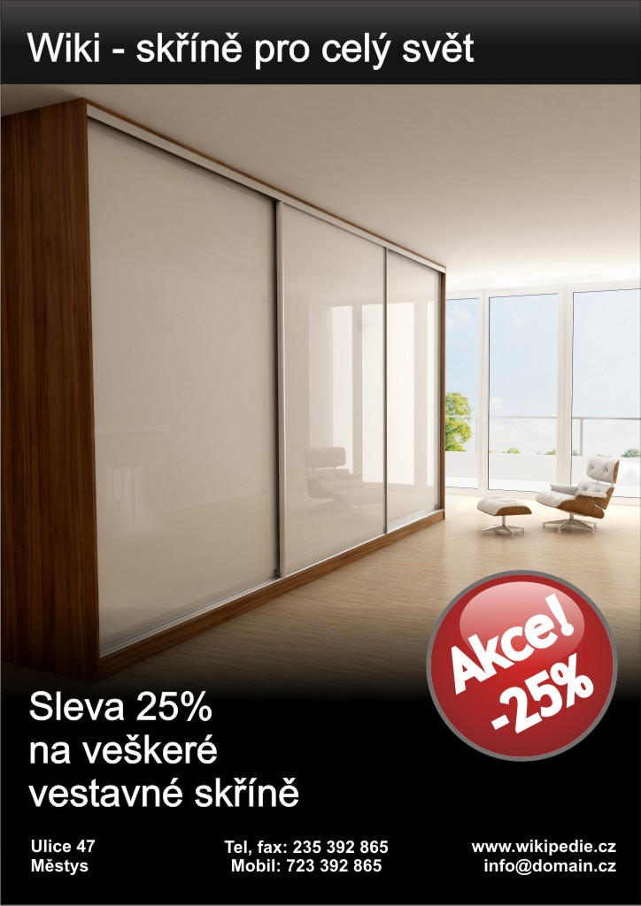 advertising brochure, Flyer